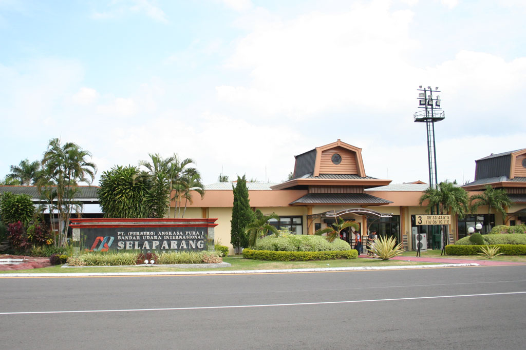 Selaparang Airport on 8 August 2010.